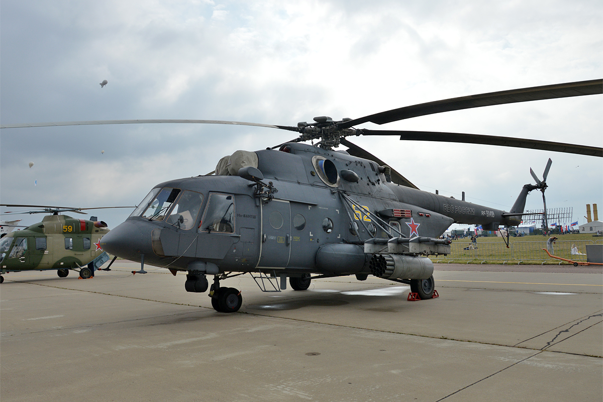 Russian Air Force, 62, Mil Mi-8